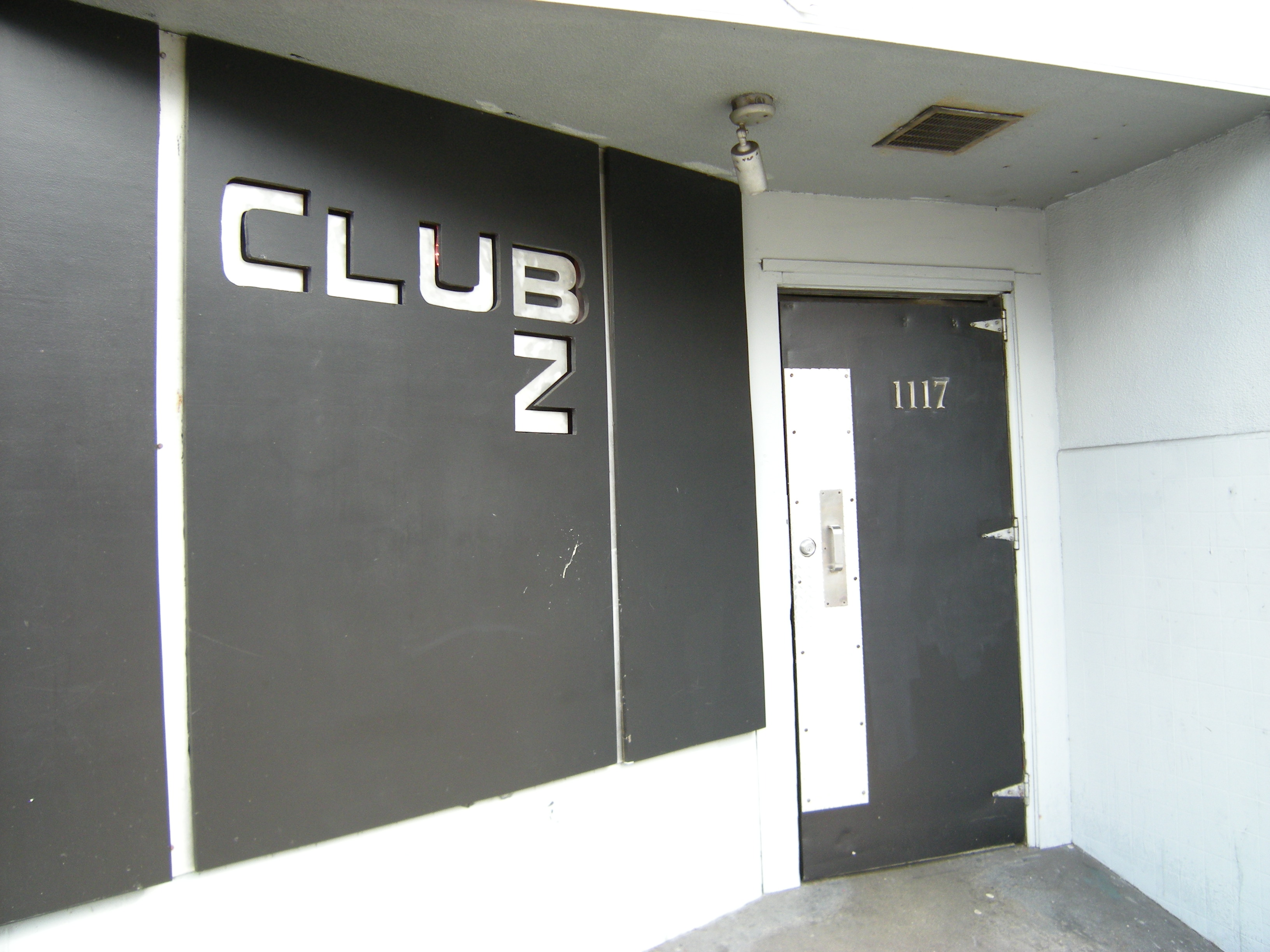 Entrance of the infamous gay bathhouse Club Z, 1117 Pike Street, Capitol Hill Seattle, Washington. See Christopher Frizelle, Bleak House, The Stranger, April 12, 2006. That story expected this building to be demolished soon; it wasn't. And I believe that story (by a gay man writing in a quite gay-friendly newspaper) fully justifies my adjective "infamous".